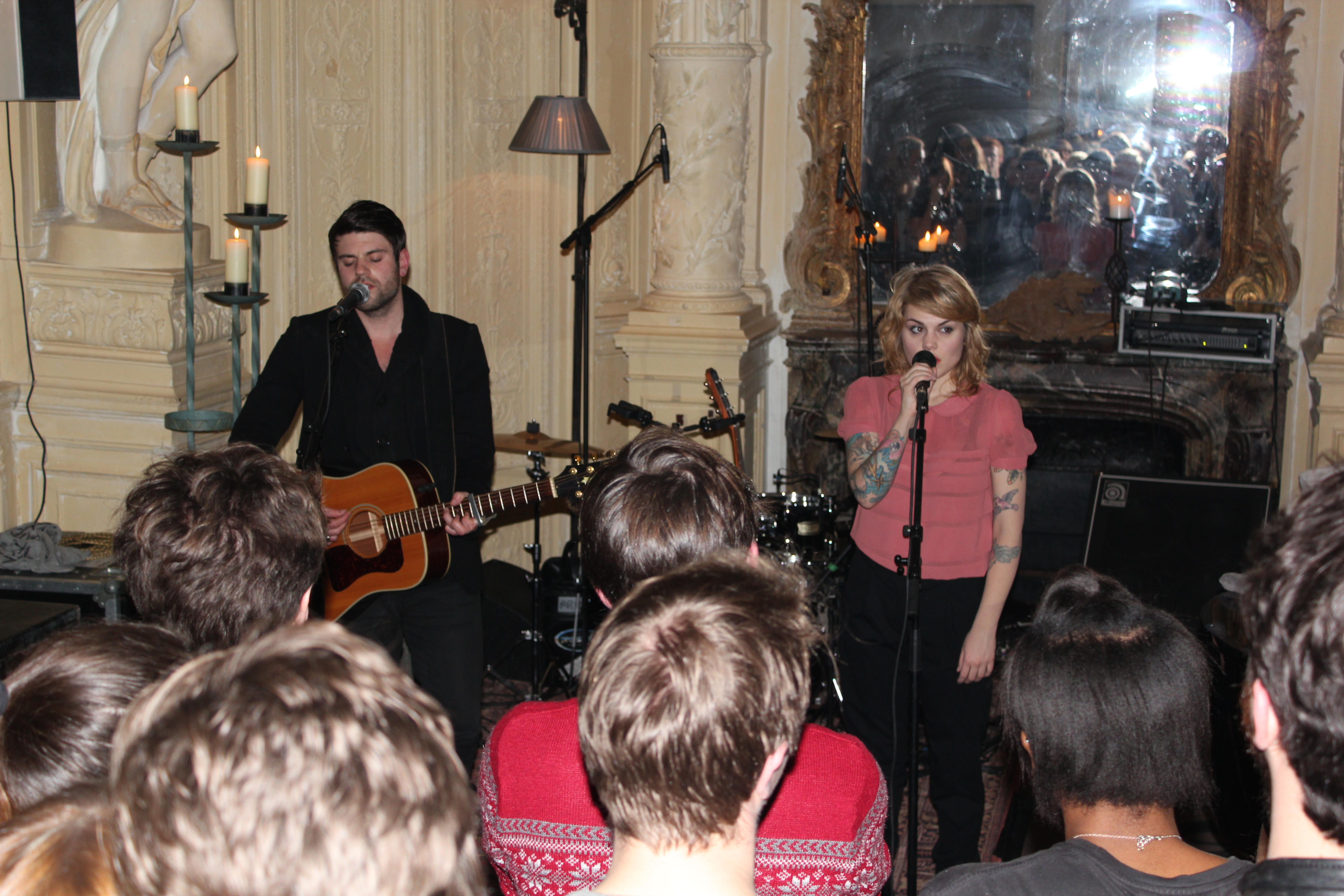 Jay Malinowski and Béatrice Martin of the duo Armistice perform in Paris, France in 2011.